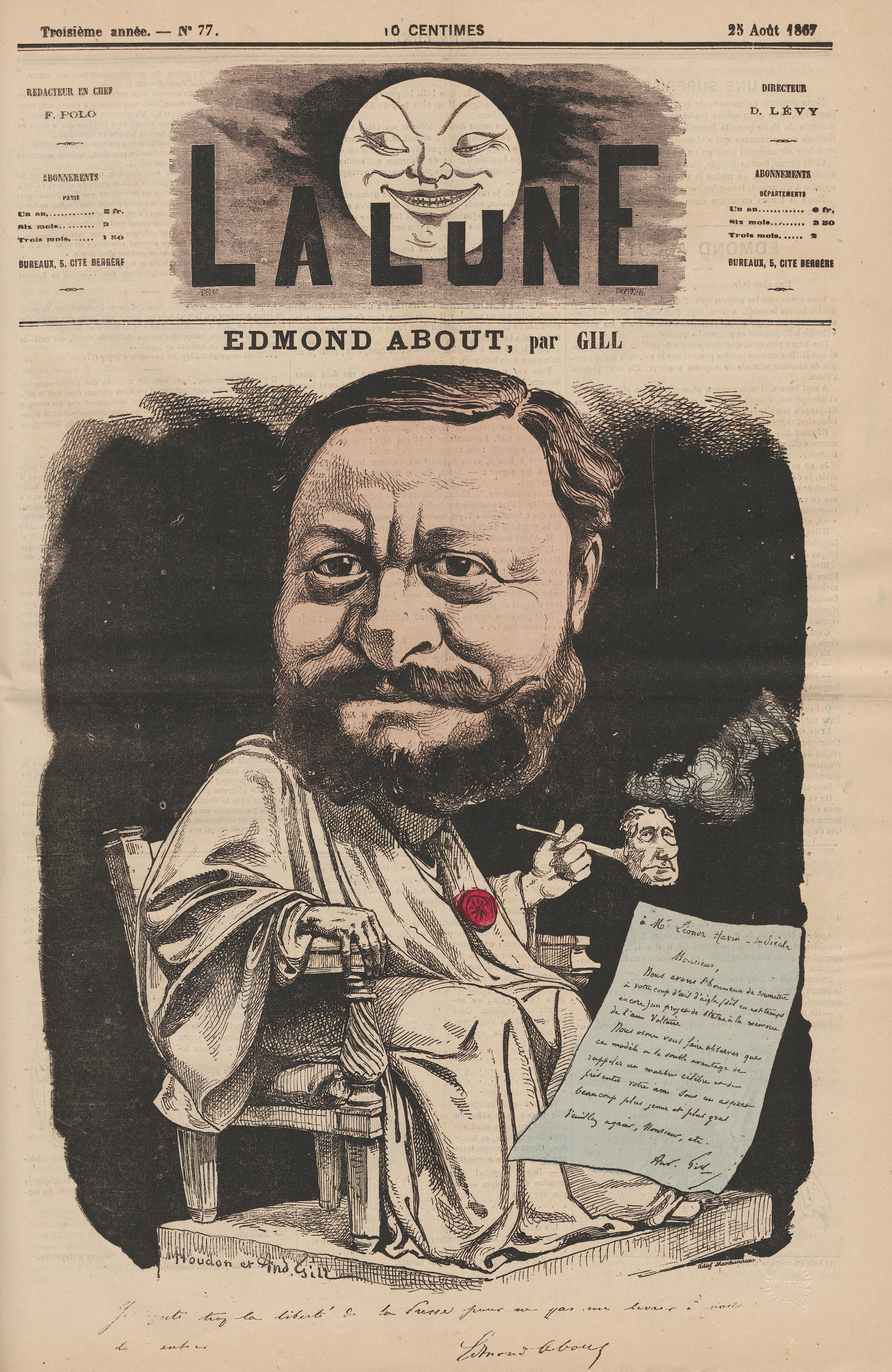 Caricature of Edmond About Cover of La Lune 25 August 1867 Hand-colored Engraving 12"w x 18"h